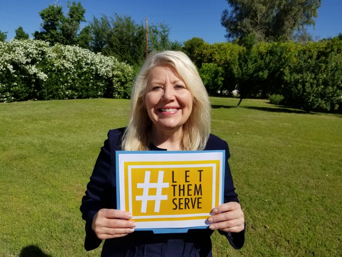 The Little Sisters of the Poor spend their time caring for the elderly & dying until God calls them home. The Supreme Court needs to protect their religious exemption & #LetThemServe! Learn more about their case & what it means for religious liberty here